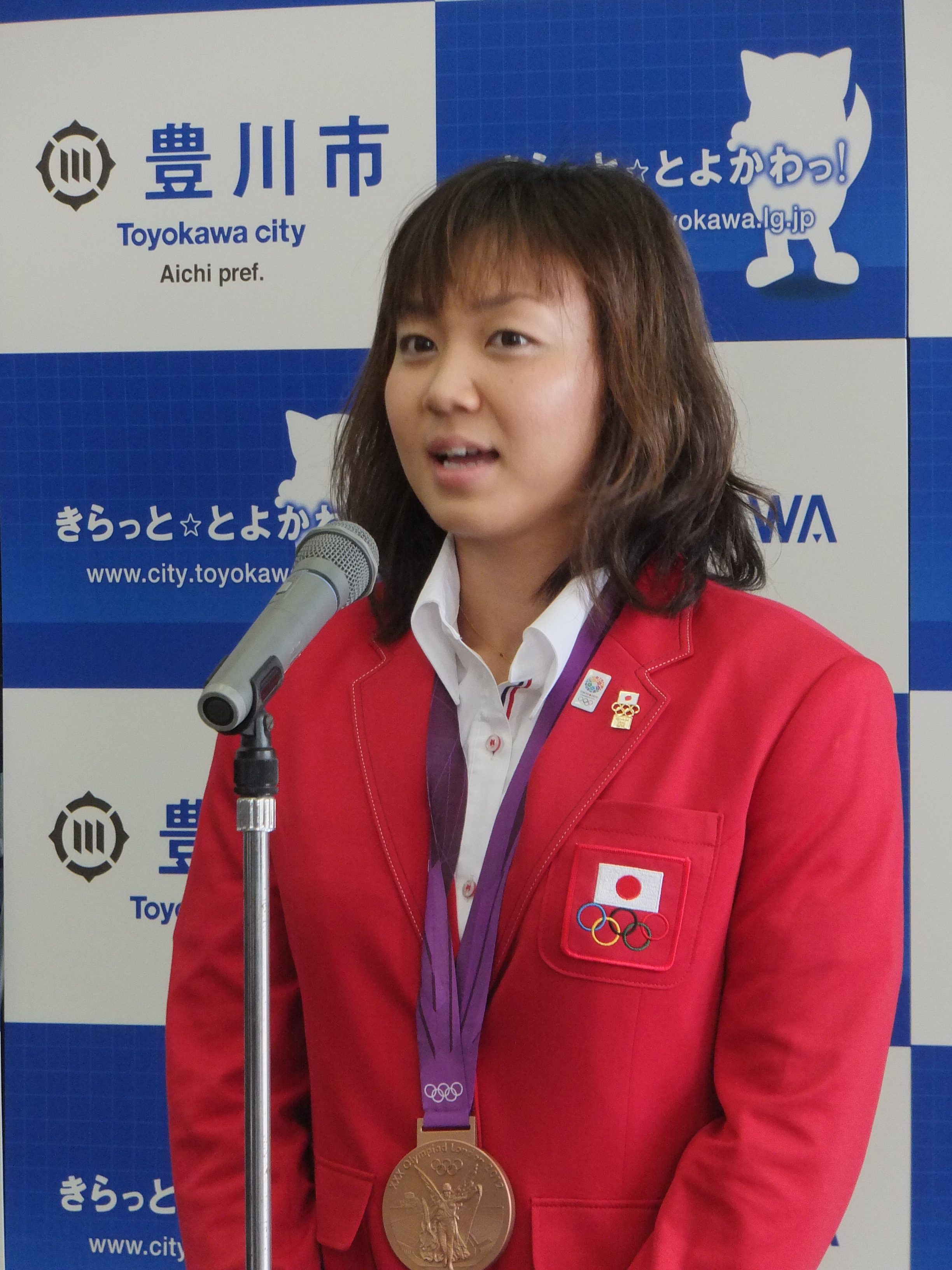 Yuka Kato, at Toyokawa City Hall Fujifilm FinePix F770EXR